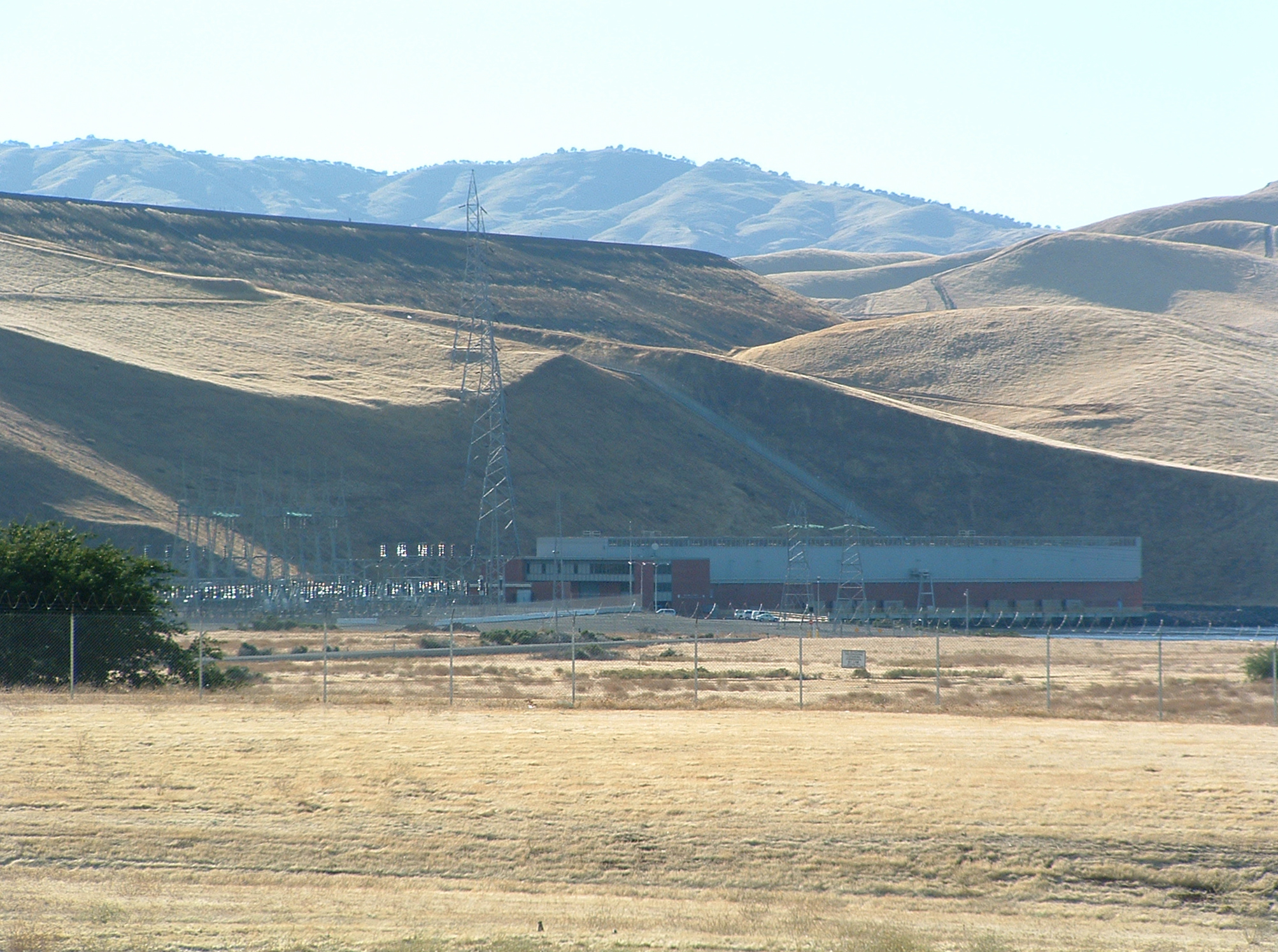 The backside of San Luis Dam near Los Banos, in the eastern slopes of the Diablo Range of western Merced County, California. The Gianelli Powerhouse can be seen at the base of the dam, a part of the California State Water Project system infrastructure. The San Luis Reservoir is used to store water for the California State Water Project. In addtion, it is the upper reservoir in a pumped-storage hydroelectric system.